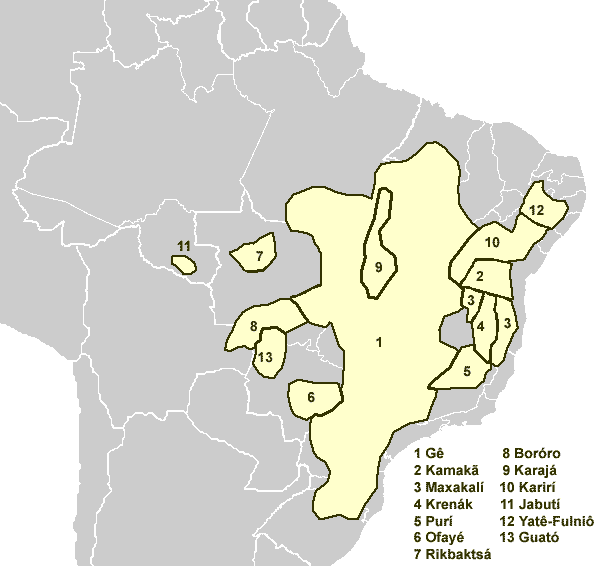 Groups of Macro-Gê languages acording to E. R. Ribeiro & H. Van der Voort Source: Ribeiro, Eduardo & Van der Voort, Hein (2010) “Nimuendajú was right: The inclusion of the Jabuti language family in the Macro-Jê stock”, International Journal of American Linguistics, 76/4.